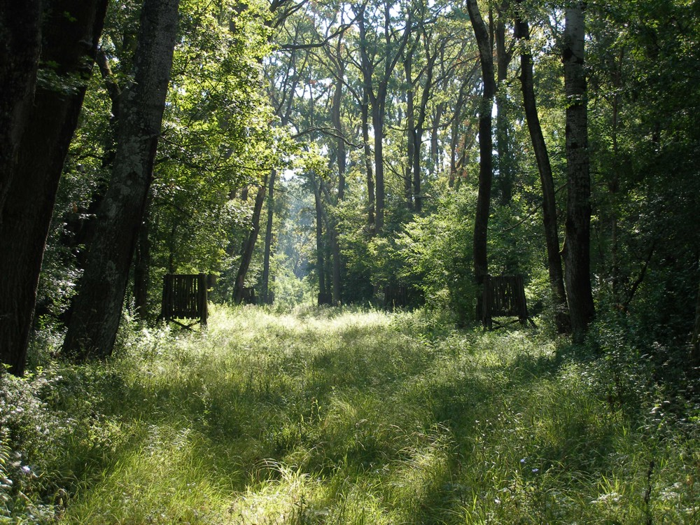 Ligeterdő.